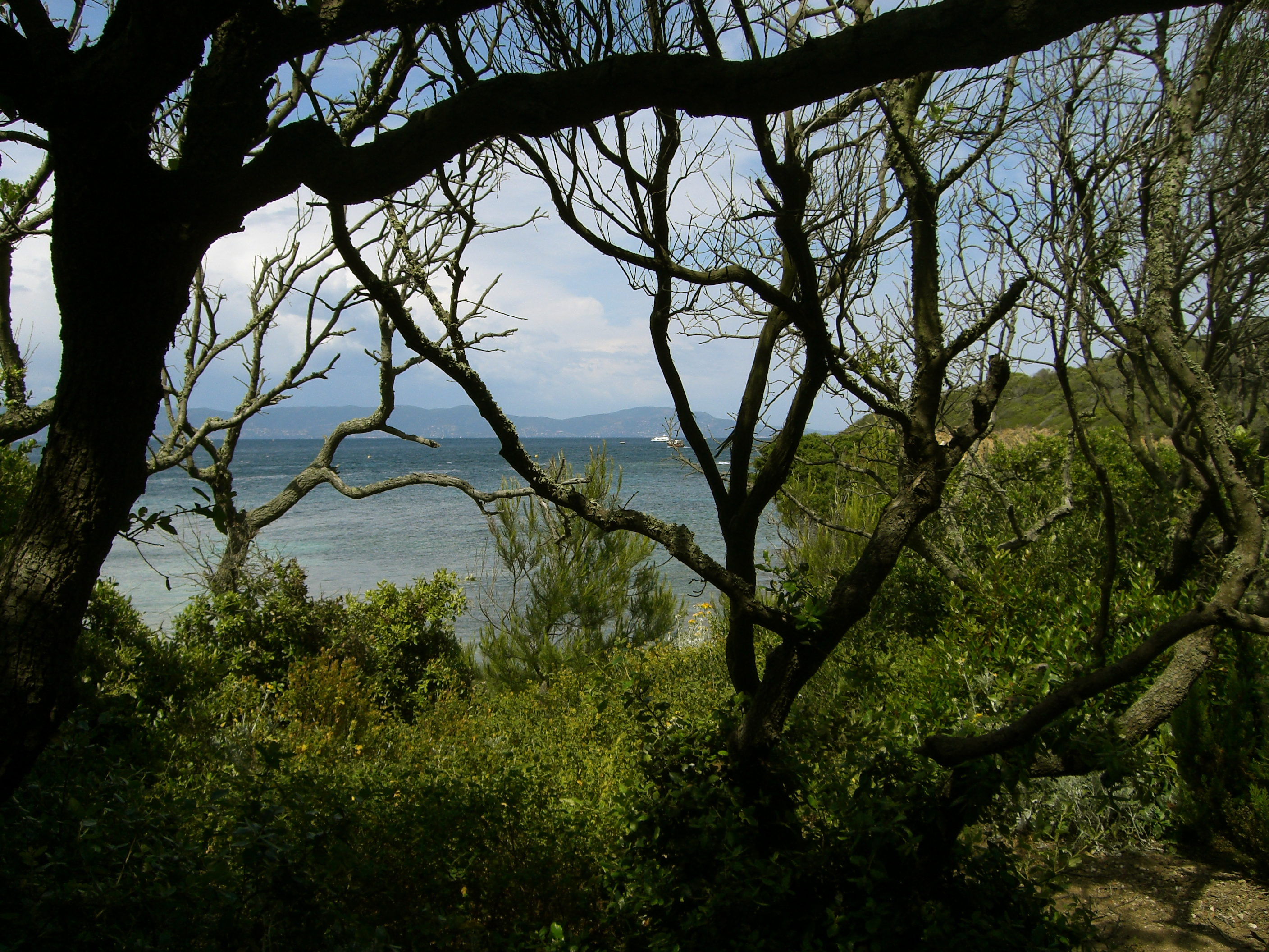 Port Cros national park, France